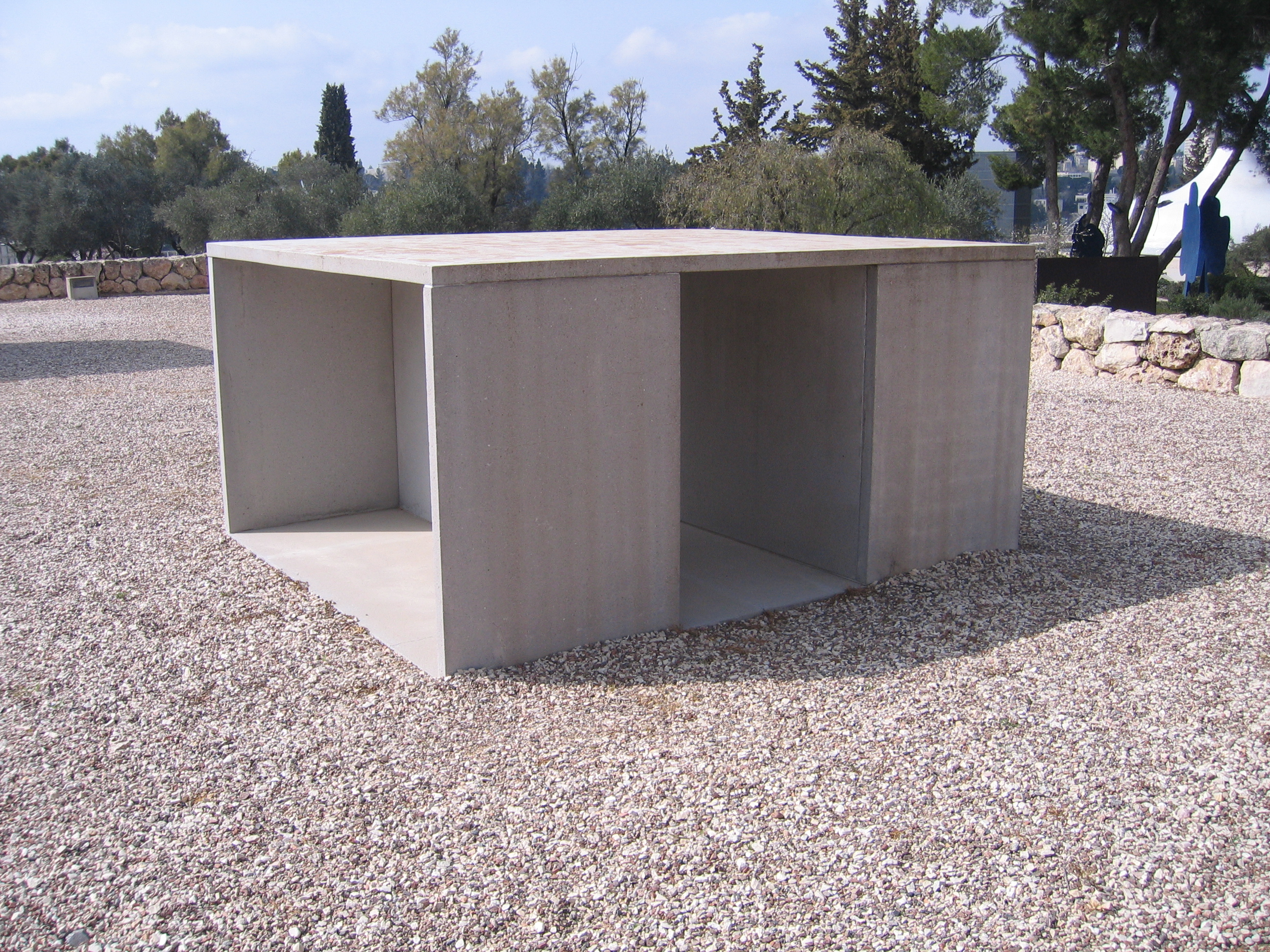 Untitled (1988-1991) — by Donald Judd, concrete sculpture. In the Billy Rose Art Garden at the Israel Museum, in Jerusalem, Israel.